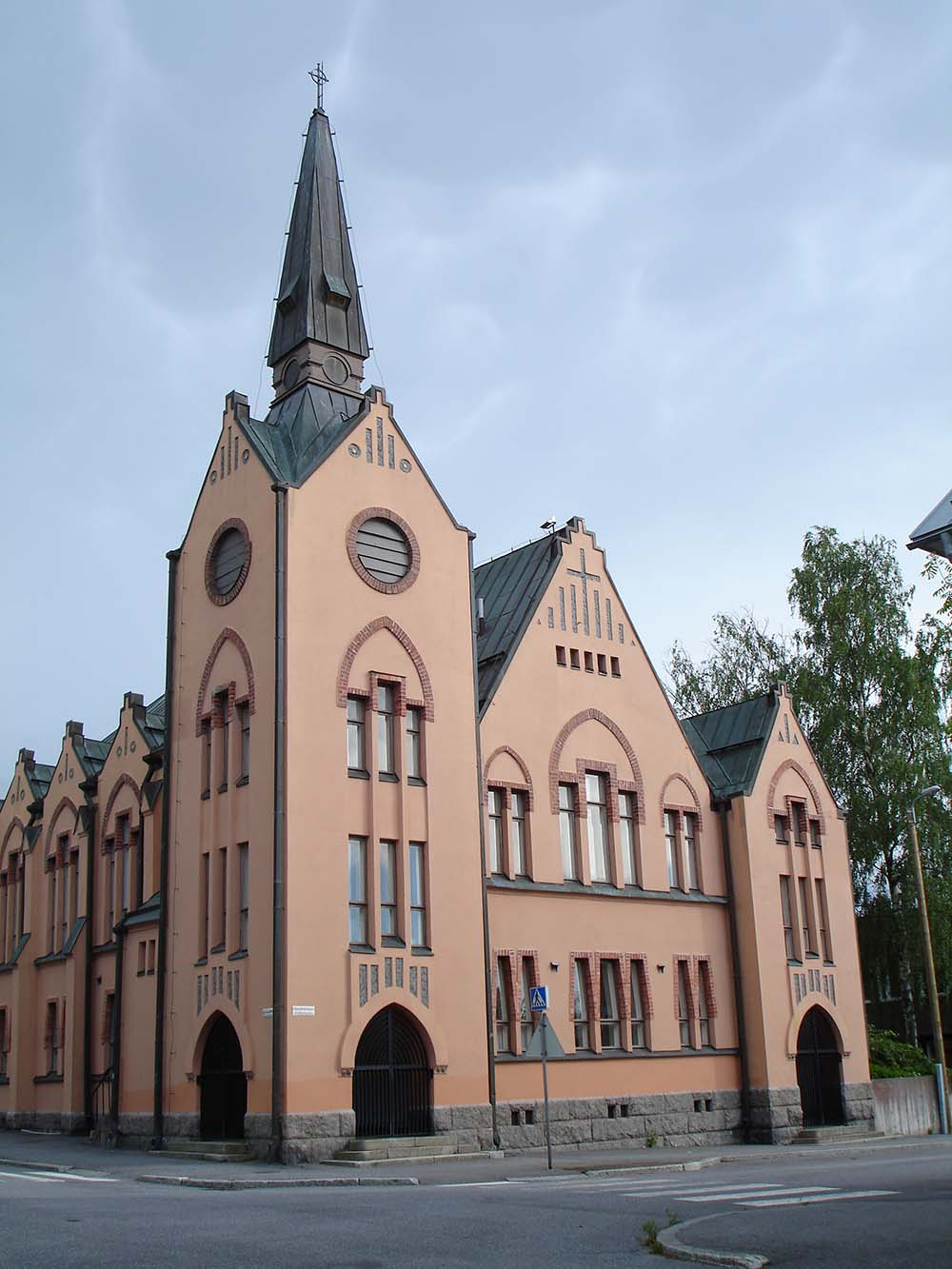 Palosaari Church in Vaasa, Finland.